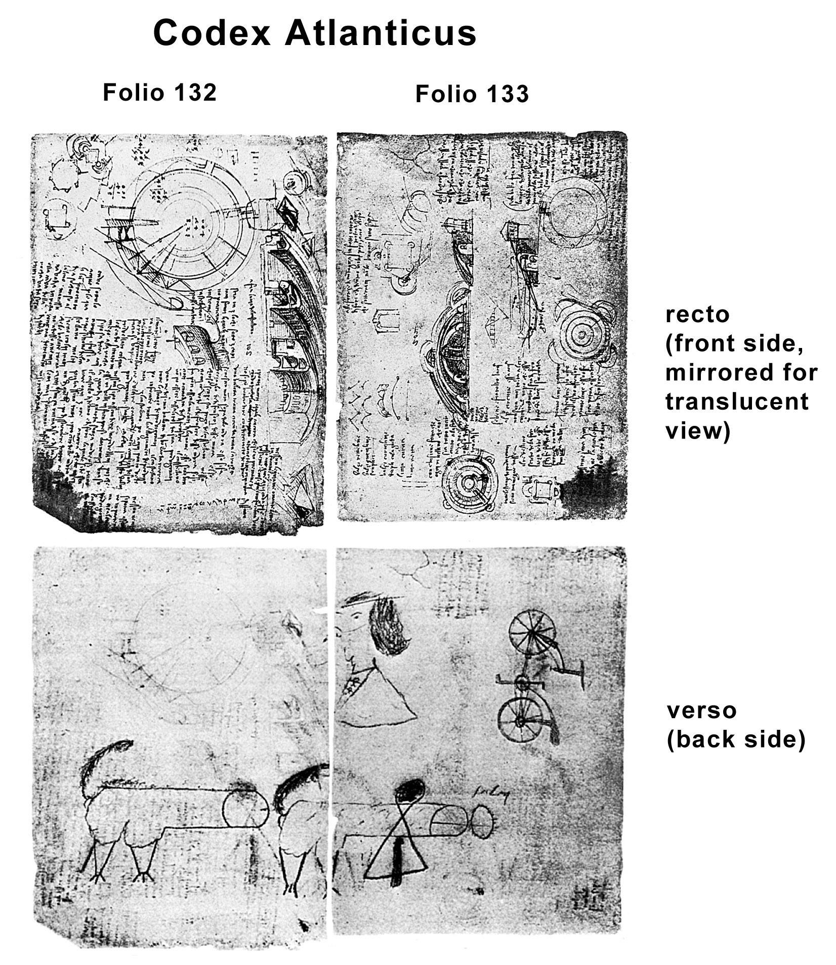 Both sides of folio 132 and 133. The graffiti proves that both were originally one sheet. The fortress sketch on the front side of folio 133 just blocks the center of the bicycle in translucent view. Exact there Pedretti's line sketch has the missing gap. It suggests he really saw some of the bike but a part was blocked.